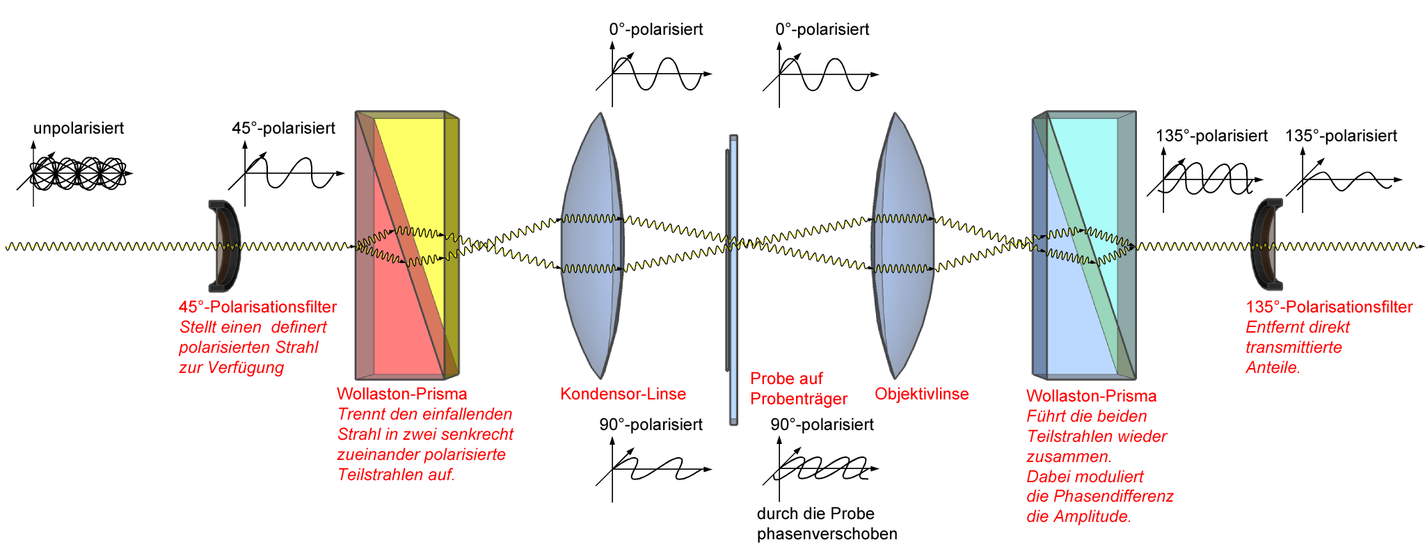 Diagram illustrating the path of light through a differential interference contrast microscope.